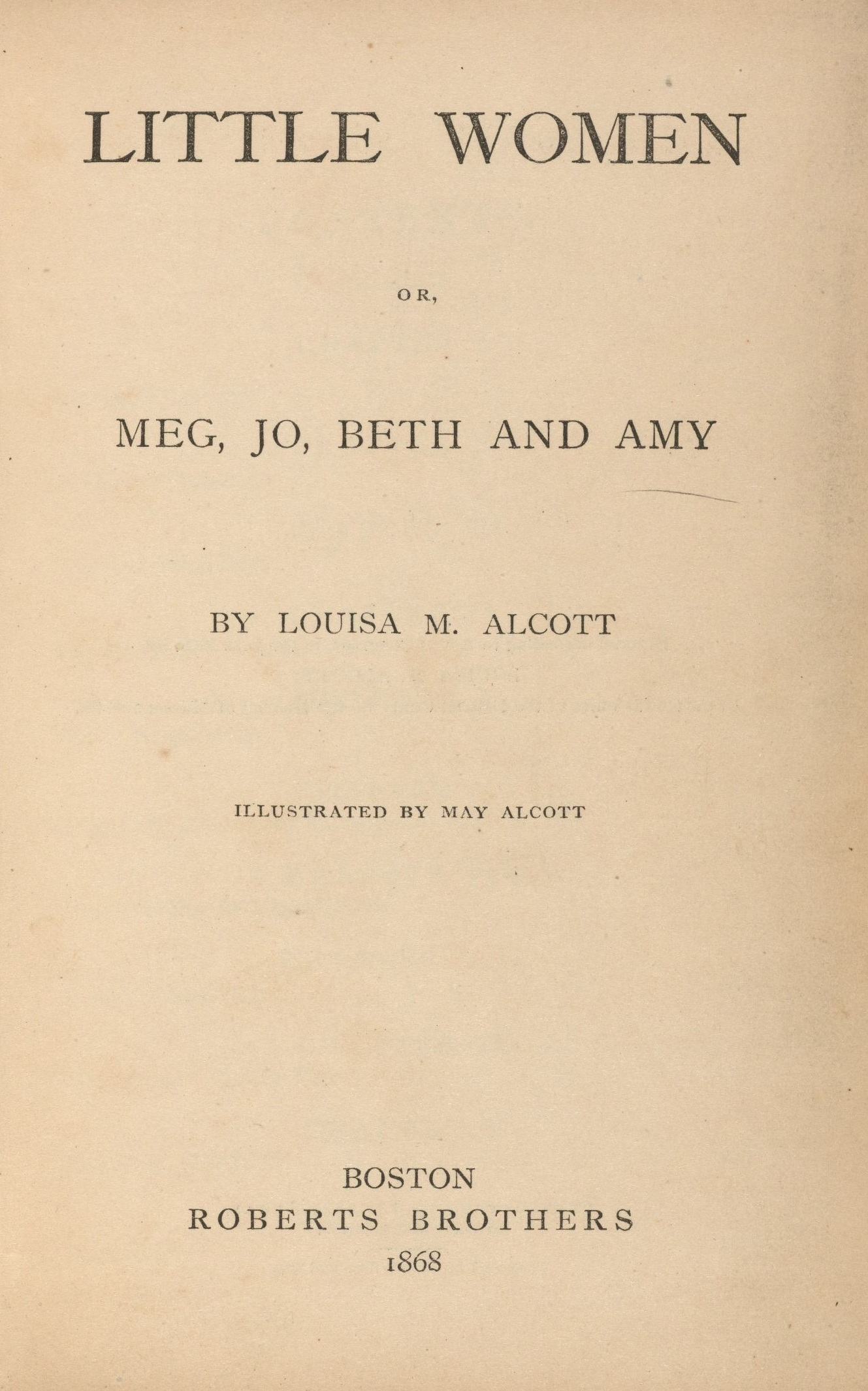 Title page: Little Women (1868), by Louisa May Alcott (1832-1888). Boston: Roberts Brothers, 1868. *AC85.Aℓ194L.1869, Houghton Library, Harvard University